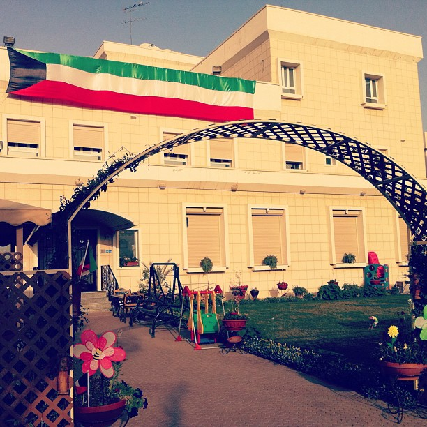 One of the houses adorned with kuwait flag in the national day